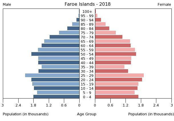 The population pyramid of the Faroe Islands illustrates the age and sex structure of population and may provide insights about political and social stability, as well as economic development. The population is distributed along the horizontal axis, with males shown on the left and females on the right. The male and female populations are broken down into 5-year age groups represented as horizontal bars along the vertical axis, with the youngest age groups at the bottom and the oldest at the top. The shape of the population pyramid gradually evolves over time based on fertility, mortality, and international migration trends.